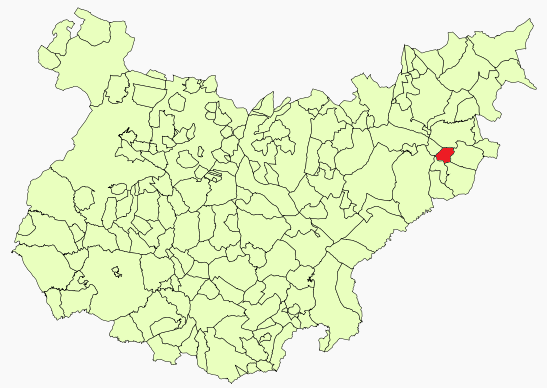 Risco